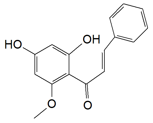 Chemical structure of cardamomin